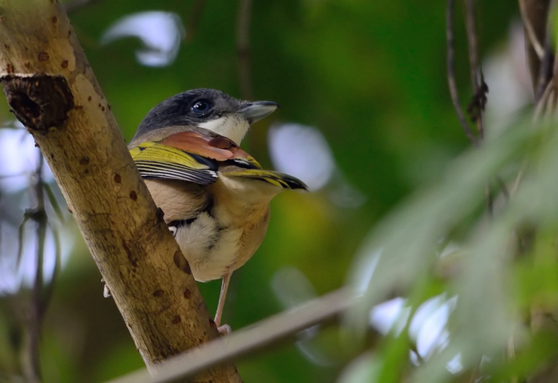 Blyth's Shrike-babbler Pteruthius aeralatus female at Namdapha national park, Arunachal Pradesh, India